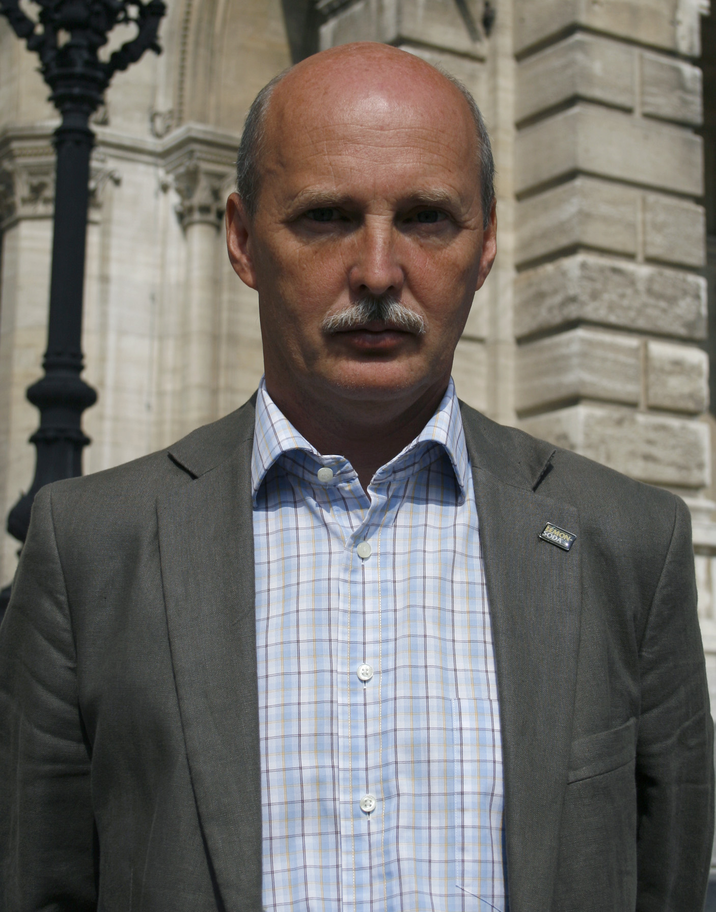 Austrian politician Günter Kenesei during the campaign for the legislative election 2008.